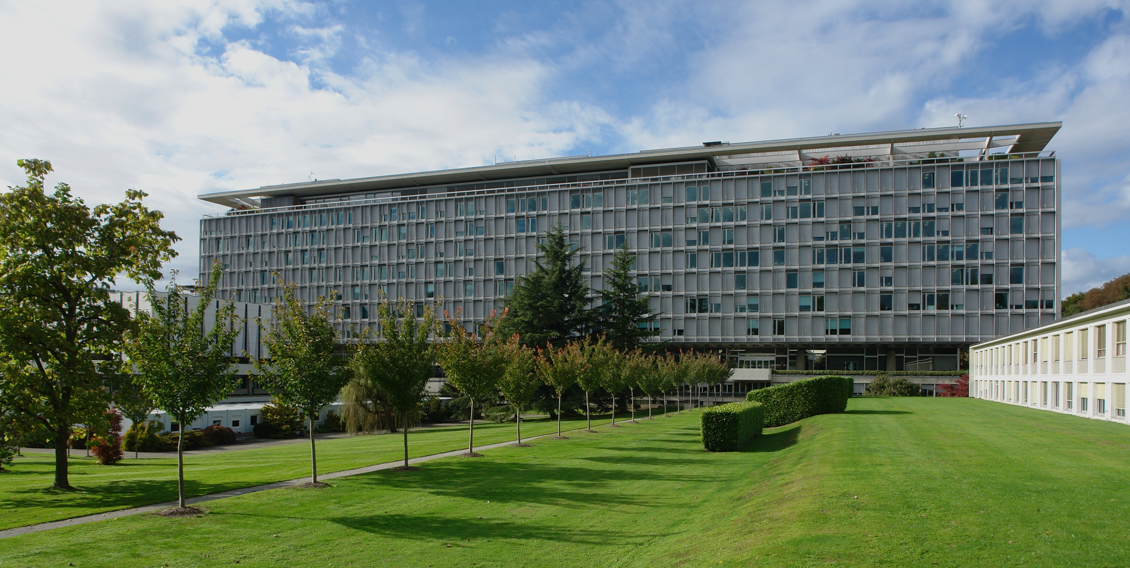 World Health Organisation building from south, Geneva